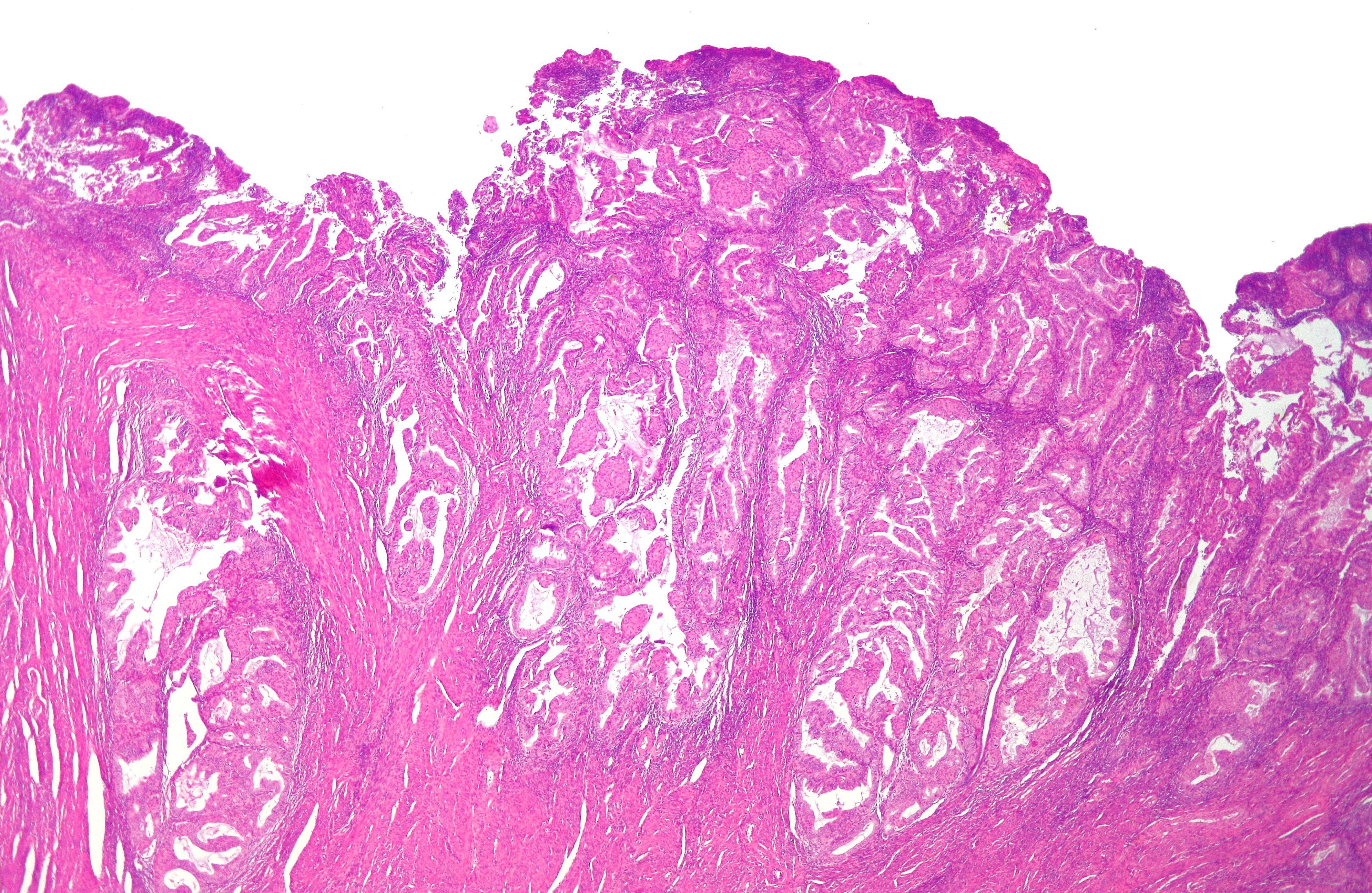 Low magnification micrograph of endometrioid endometrial adenocarcinoma. H&E stain. Endometrioid endometrial adenocarcinoma is the most common form of endometrial cancer. Features: Malignant endometrial glands. Squamous metaplasia. Related images Low mag. Intermed. mag. High mag. Very high mag.